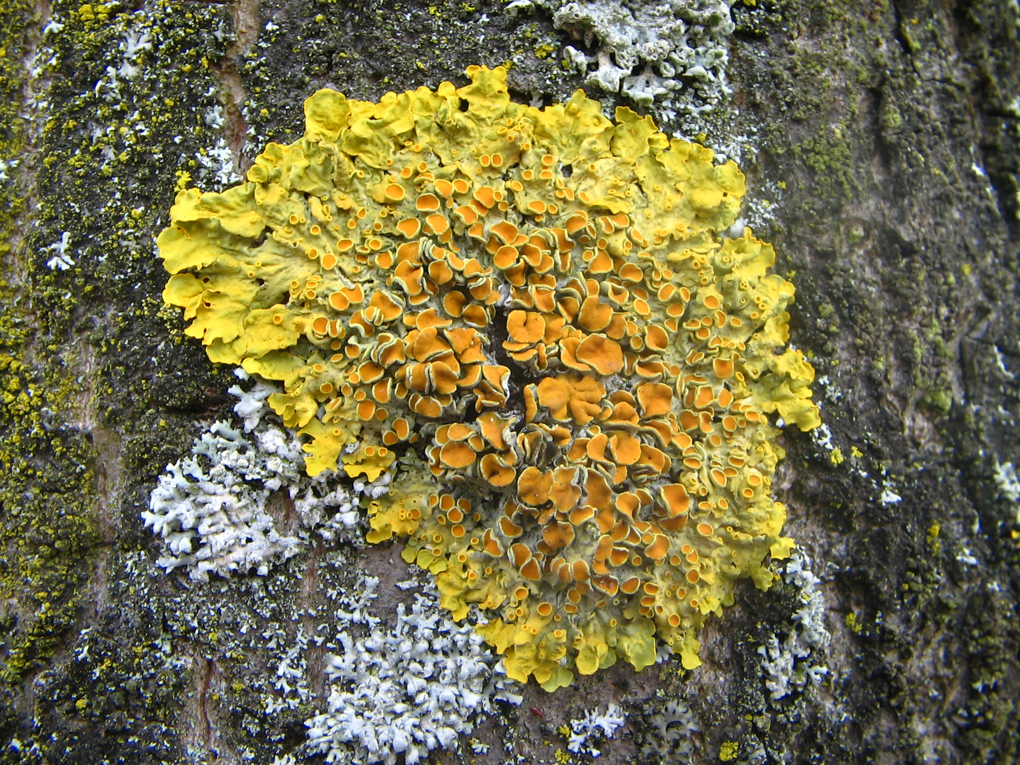 Xanthoria parietina Date: 2006-03-31 Location: Utrecht, Netherlands Source: Added on request to the Wikipedia. There are more photos of this species at